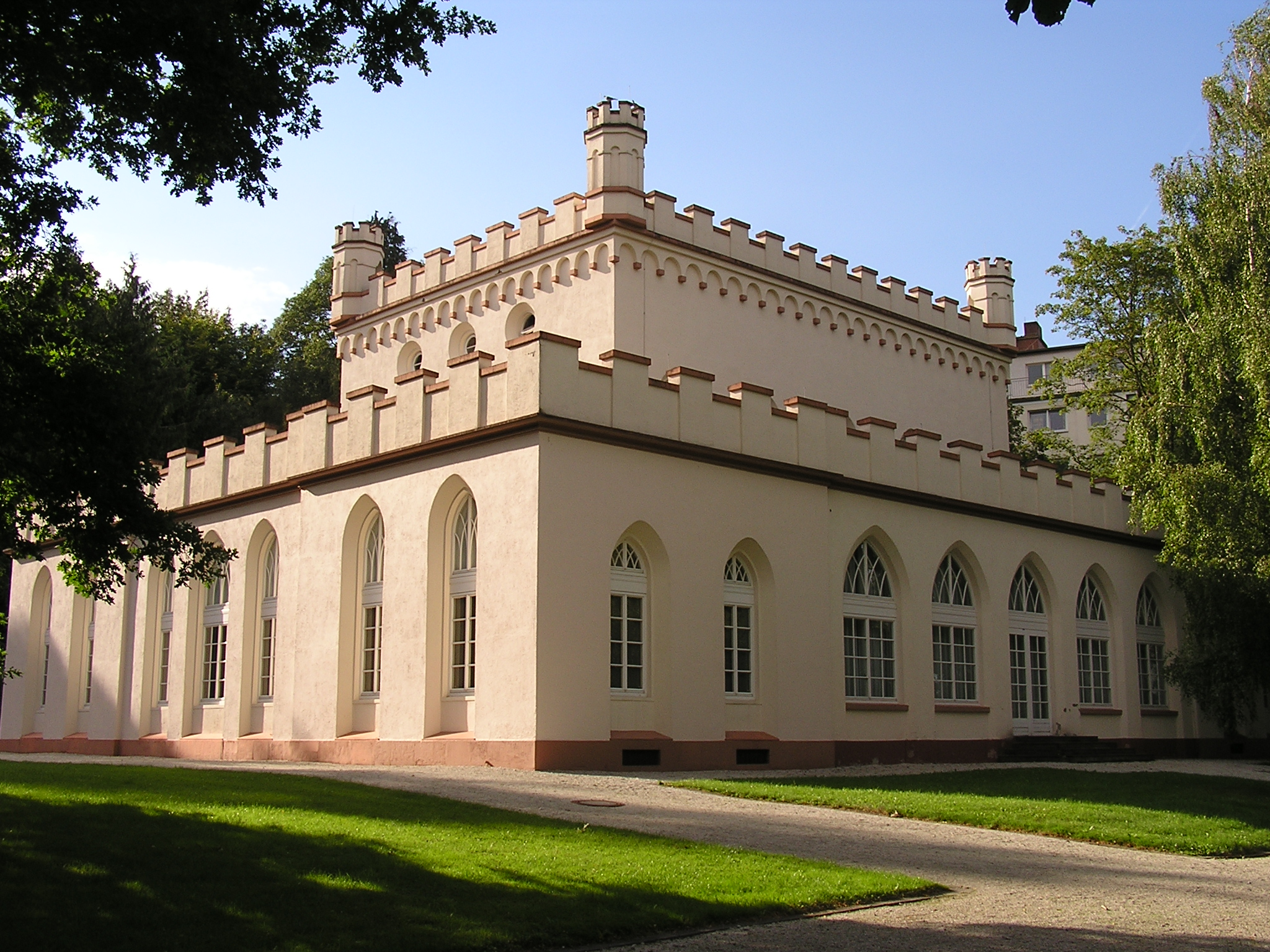 The Gotisches Haus in Bad Homburg